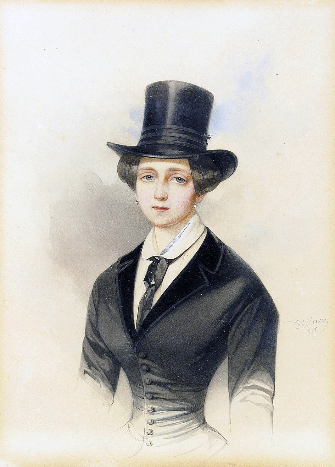 Grand Duchess Catherine Mikhailovna(1827-1894) was the third daughter of Grand Duke Mikhail Pavlovichand Grand Duchess Elena Pavlovna of Wurtemburg, and was the cousinof Tsar Alexander II.